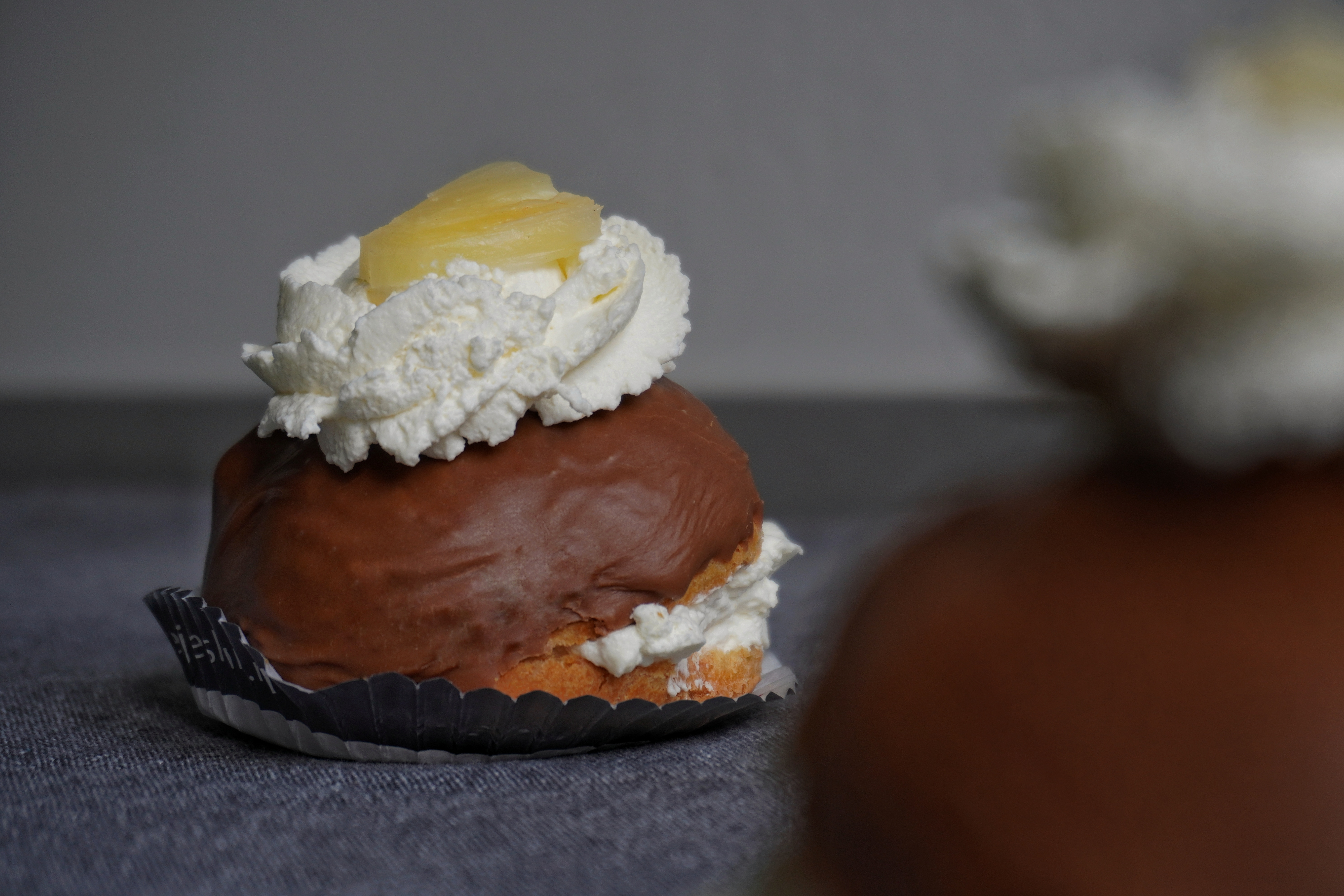 Dutch pastry wotj a piece of pineapple